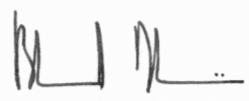 Signature of Bertrand Delanoë